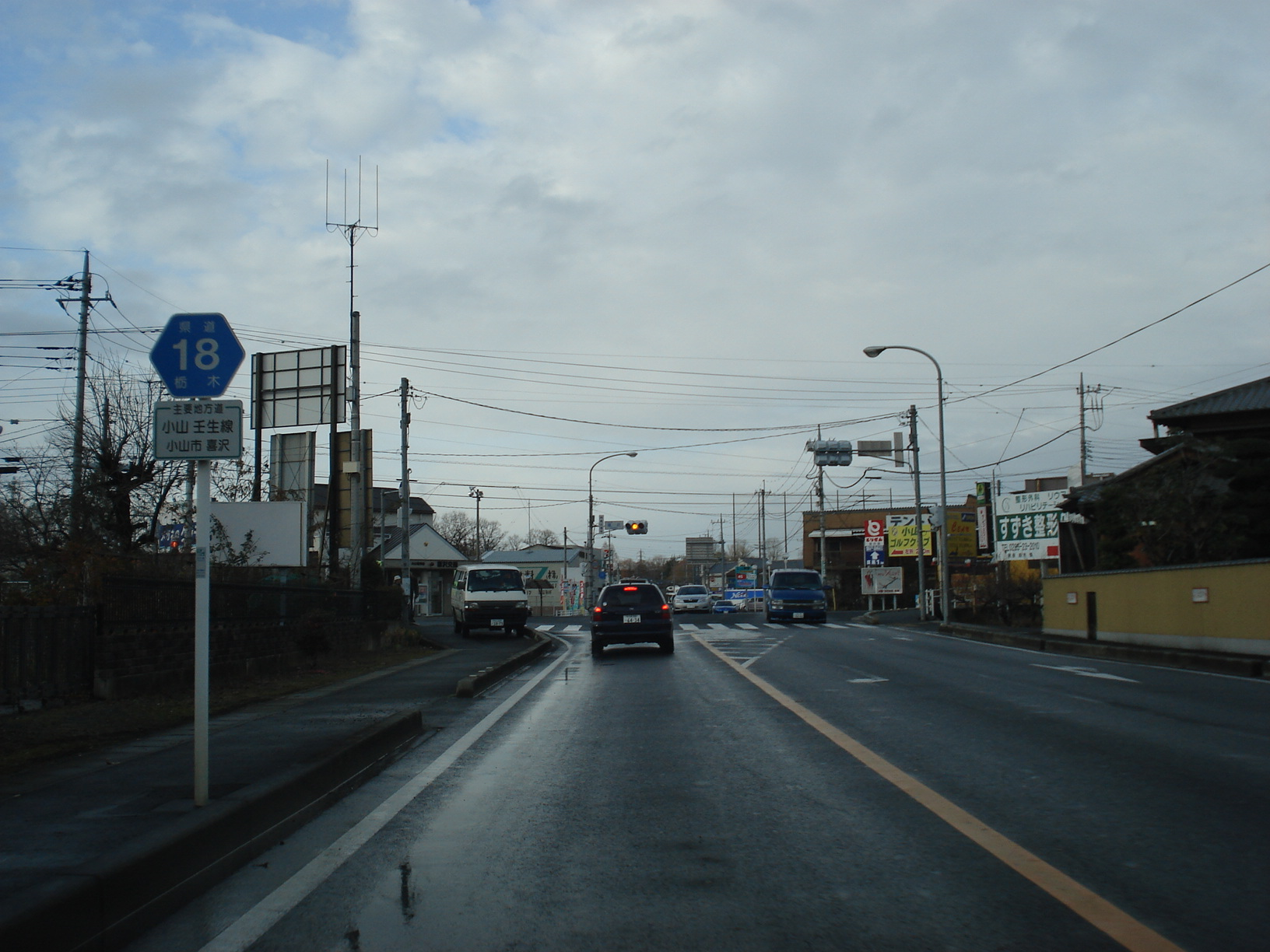 The Tochigi Prefectural Road Route 18 in Kizawa, Oyama City